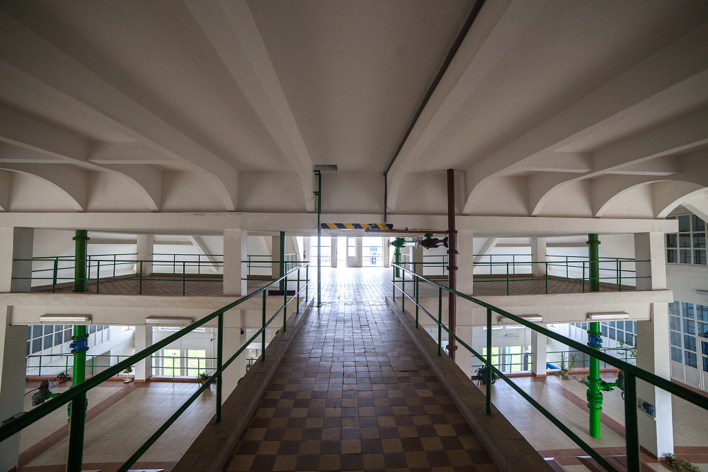 Úpravna vody Vyšní Lhoty - přítok surové vody z nádrže Morávka, autor: Boris Renner